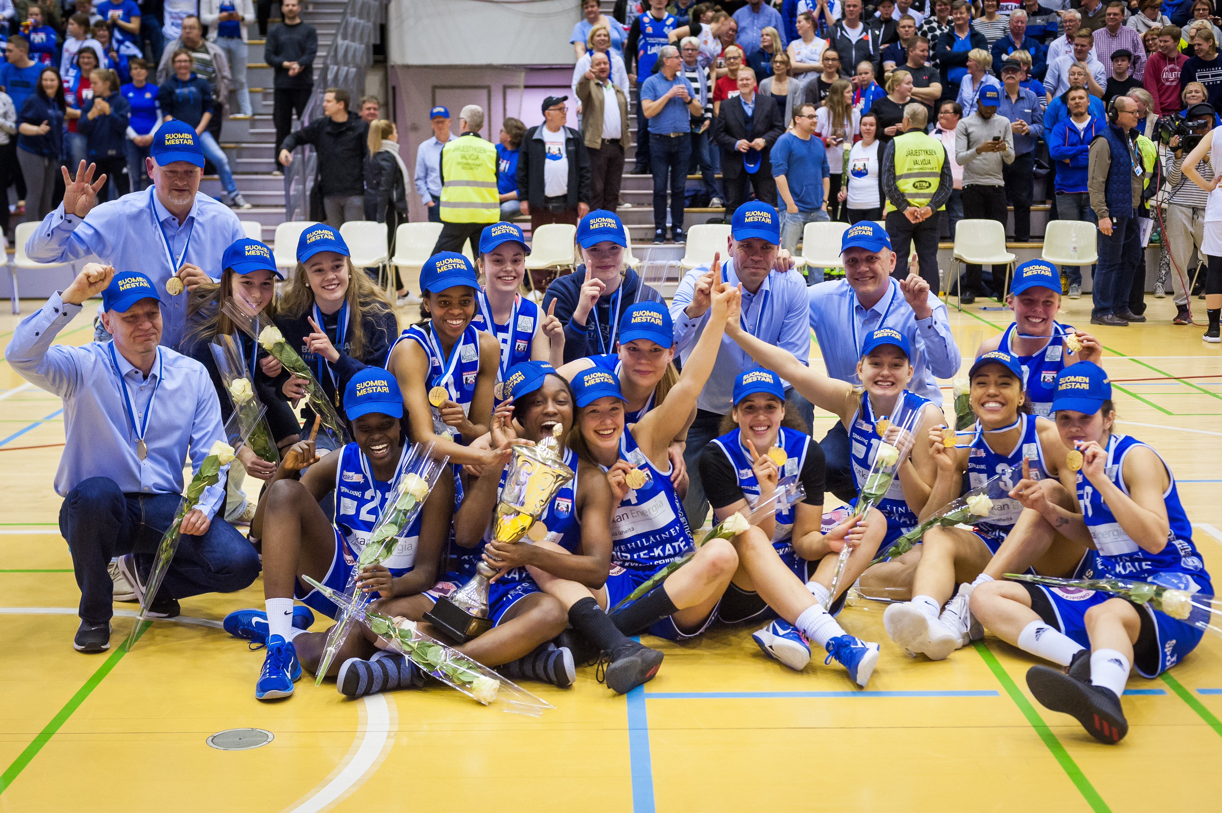 Basketball's Finnish women's championship final match between Catz Lappeenranta vs. Peli-Karhut from Kotka in Lappeenranta, Finland. Peli-Karhut clinched the championship 3-2 by winning 69-56. The loss was Catz' first home loss of the season. The championship was the fourth ever for Peli-Karhut while Catz had won it six times, all during the last eight seasons.